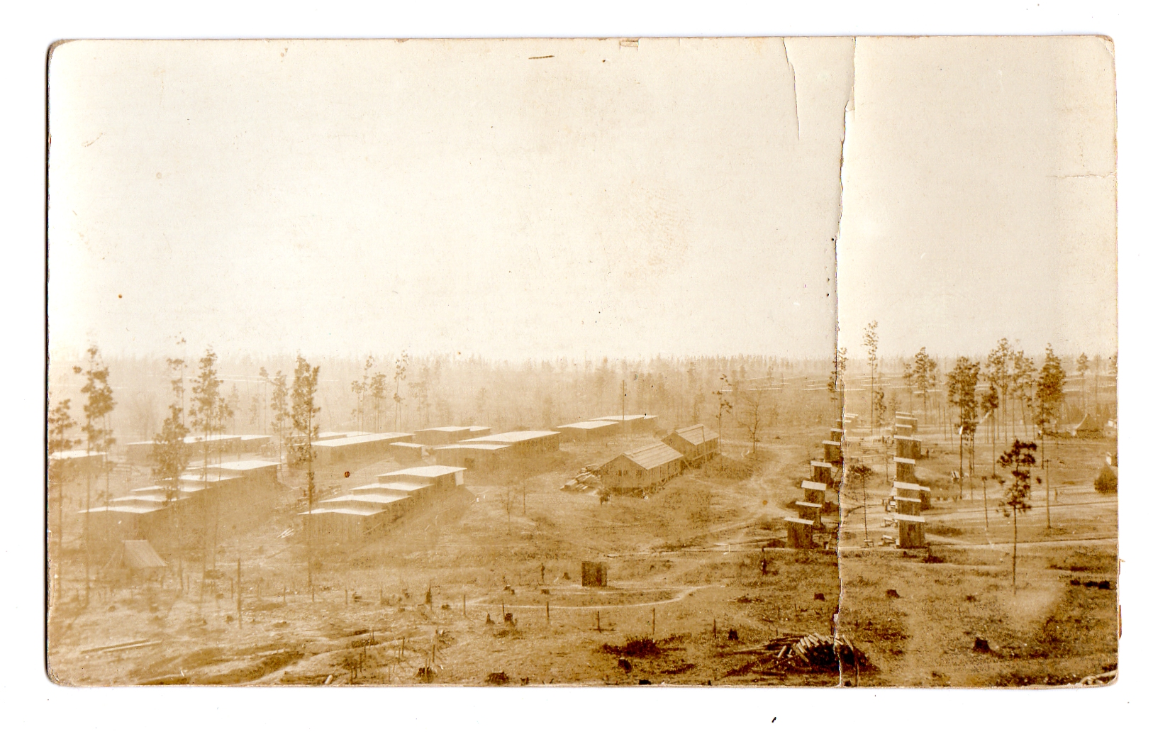 113th Engineer Camp1